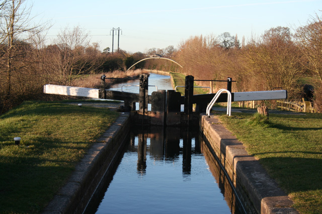 Swanley Lock no. 2. Grade-II-listed lock on the Llangollen branch of the Shropshire Union Canal immediately north of Swanley Bridge. The lock, by J Fetcher, dates from 1805 and is in red and blue brick. For more information, The arch in the distance is a pipe: 1199845